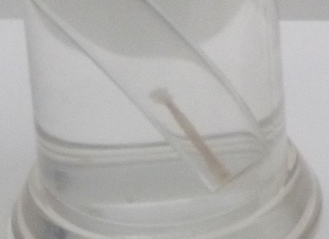 Phoronis australis at Osaka Museum of Natural History